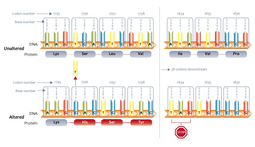 This image was created by the NHS National Genetics and Genomics Education Centre. For further information and resources please visit our website